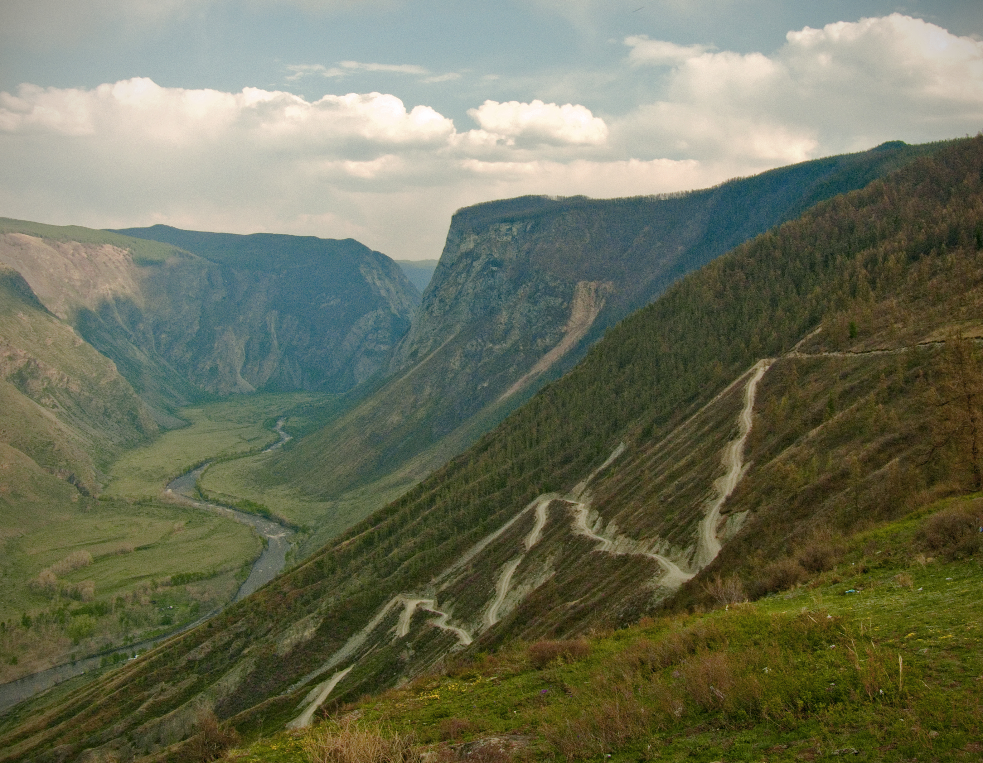 Katu-Yaryk pass. 800 meters down to Chulyshman...